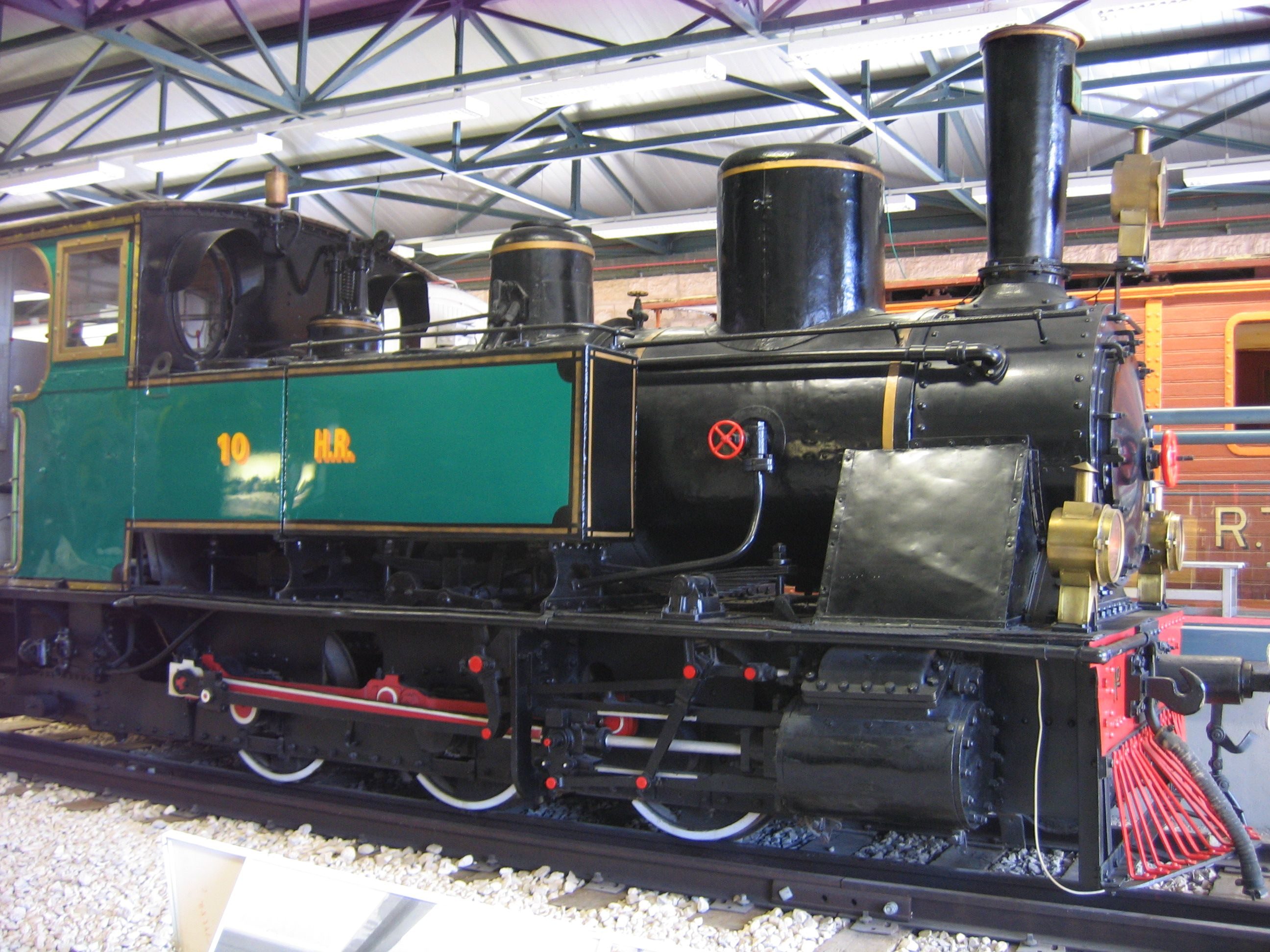 Israel Railway Museum, Haifa: Steam engine of Hejaz Railway of 1902